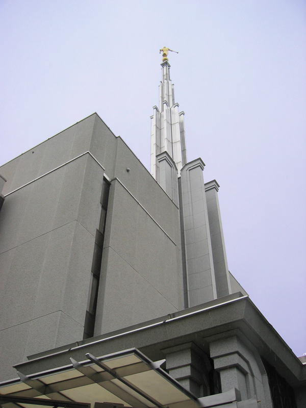 The Tokyo Japan Temple of the Church of Jesus Christ of Latter-day Saints. It was raining the day we attended church in the little chapel beside the temple. The chapel building also includes the JMTC, temple missionary apartments, and other things.